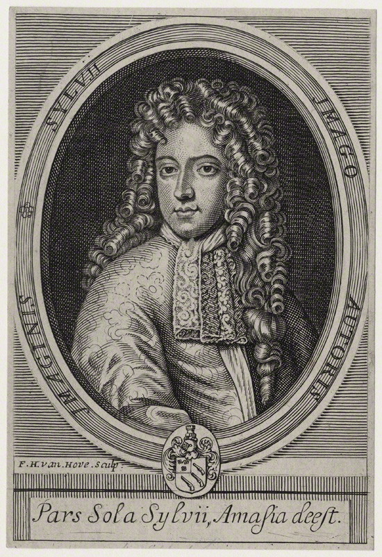 Portrait of John Hopkins (born 1675), English poet.